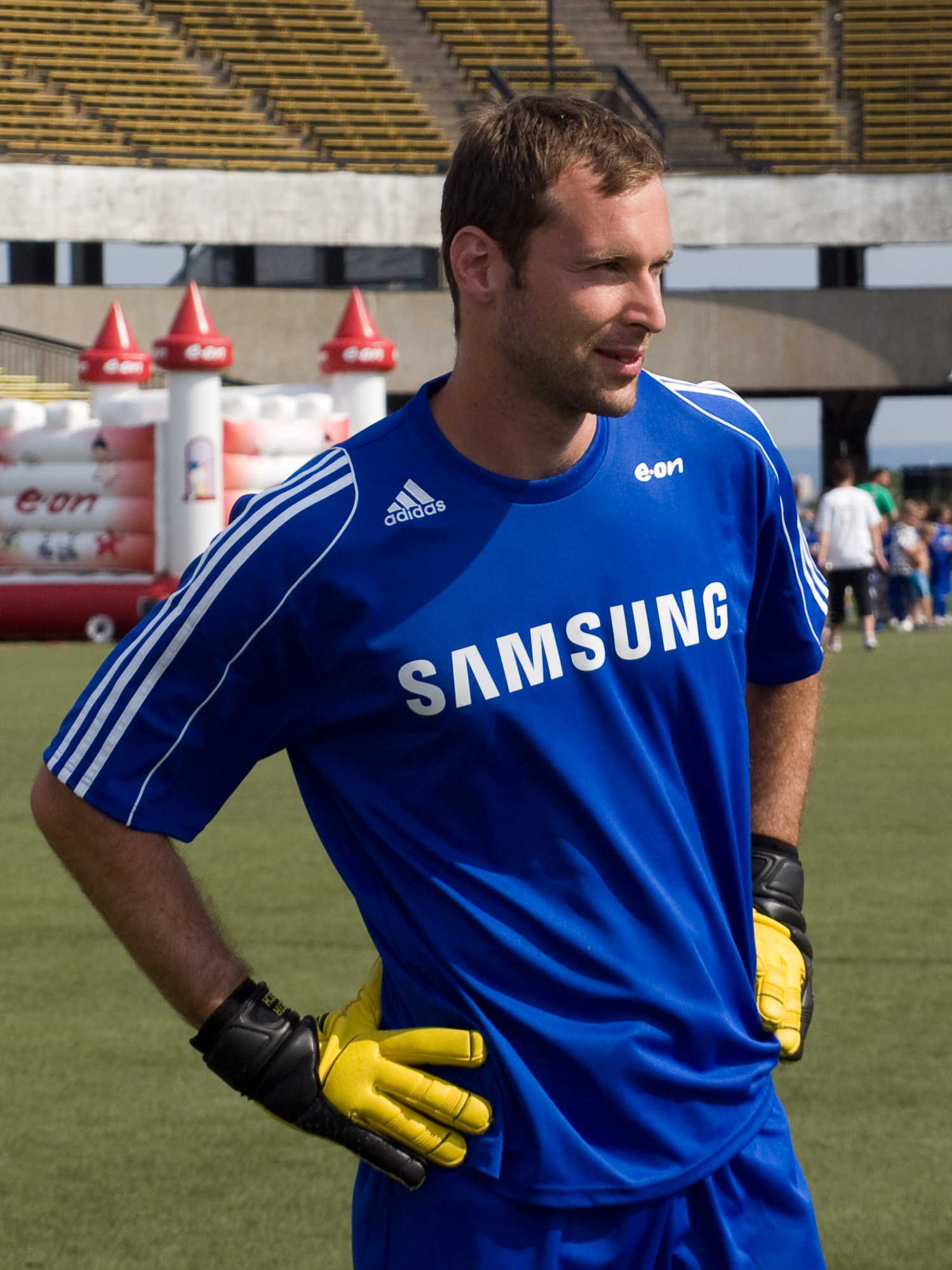 Petr Čech, games at Strahov, Prague